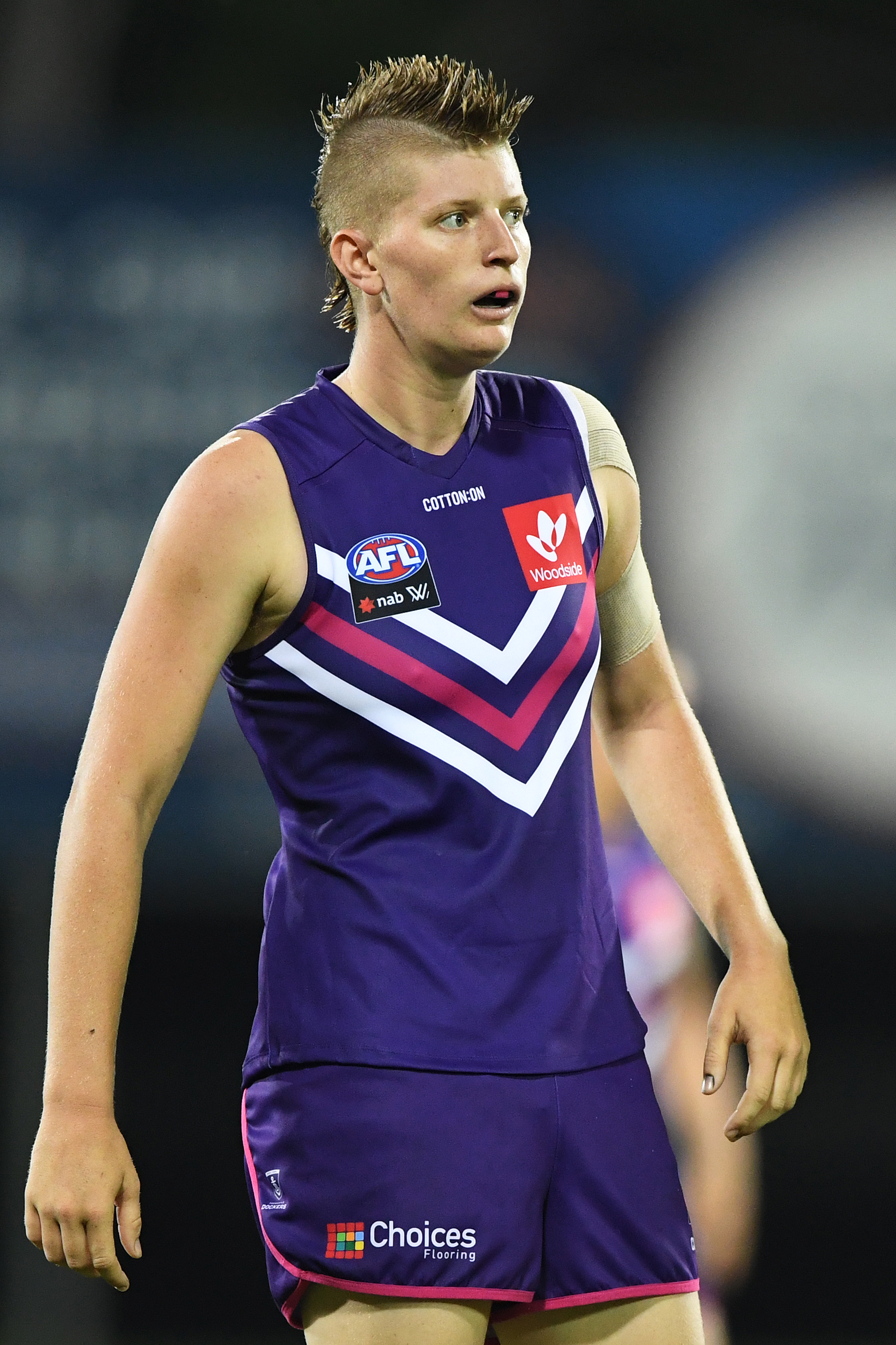 Tayla McAuliffe of Fremantle during the 2019 AFL Women's practice match between the Adelaide Football Club and Fremantle Football Club at TIO Stadium on January 19, 2019 in Darwin Australia.